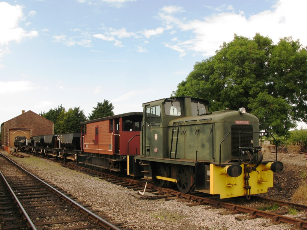 Andrew Barclay 0-4-0 diesel number 579 of 1972. This locomotive used to work at Royal Ordnance Factory Bridgwater but is seen here working in the permanent way depot of the West Somerset Railway at Dunster, England.